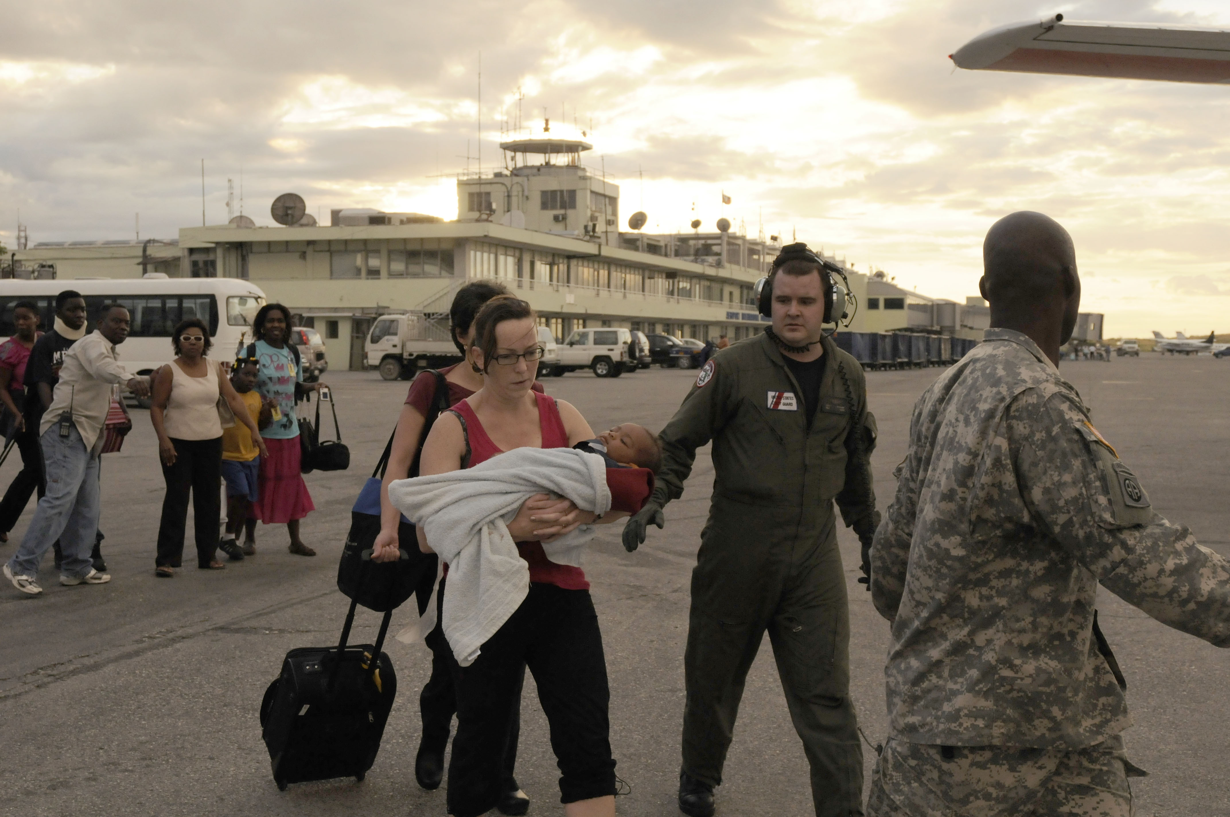 Petty Officer 2nd Class Daniel Wilburn, an aviation maintenance technician from Coast Guard Air Station Clearwater, Fla., guides U.S. personnel affected by the 7.0 magnitude earthquake that struck Haiti Tuesday, to a waiting HC-130 Hercules aircraft, Jan. 13, 2010, as part of the U.S. Government's continued humanitarian assistance and disaster response efforts. Wednesday, Coast Guard personnel from Air Station Clearwater, Fla., worked to evacuate nearly 140 U.S. personnel from Haiti. ID: 100113-G-1330O-88 Coast Guard evacuates U.S. personnel from Hait